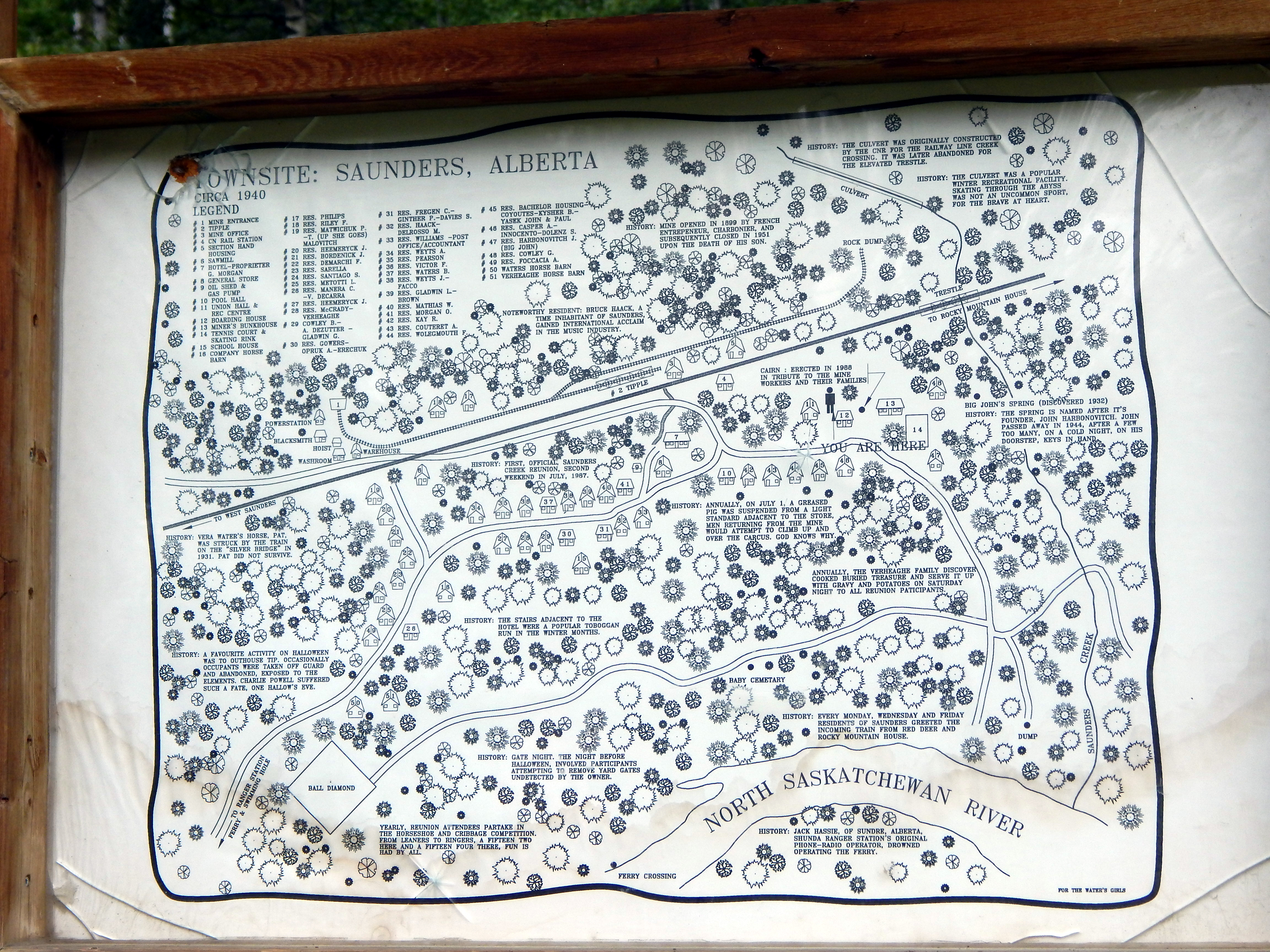 Historical information poster at the abandoned mining town of Saunders Creek, Alberta.